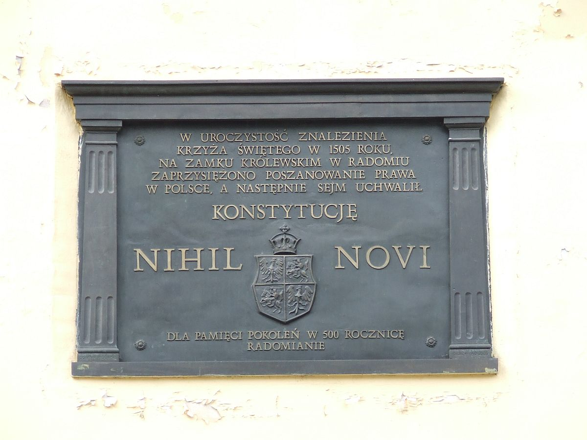 Nihil novi, Radom castle wall